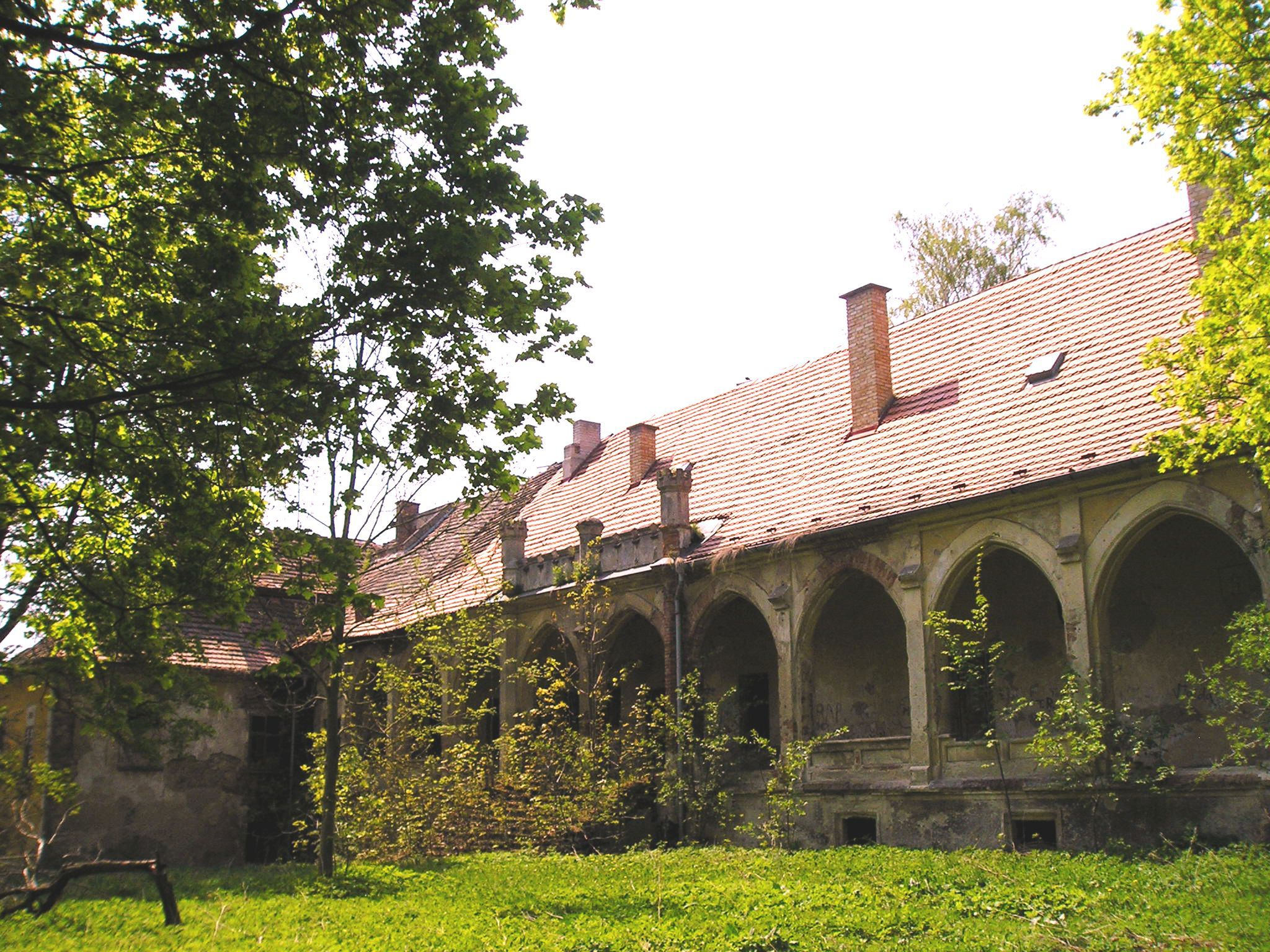 Chotýšany castle